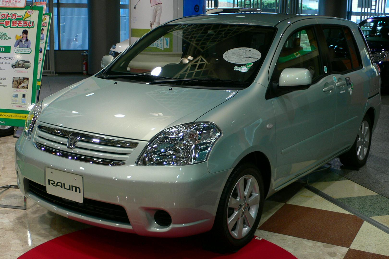 2nd Toyota_Raum(2003) photographed in Showroom of Toyota-AMLUX